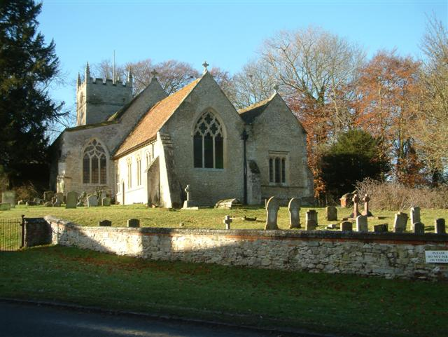 St Bartholomew's parish church, Brightwell Baldwin, Oxfordshire, seen from east-southeast